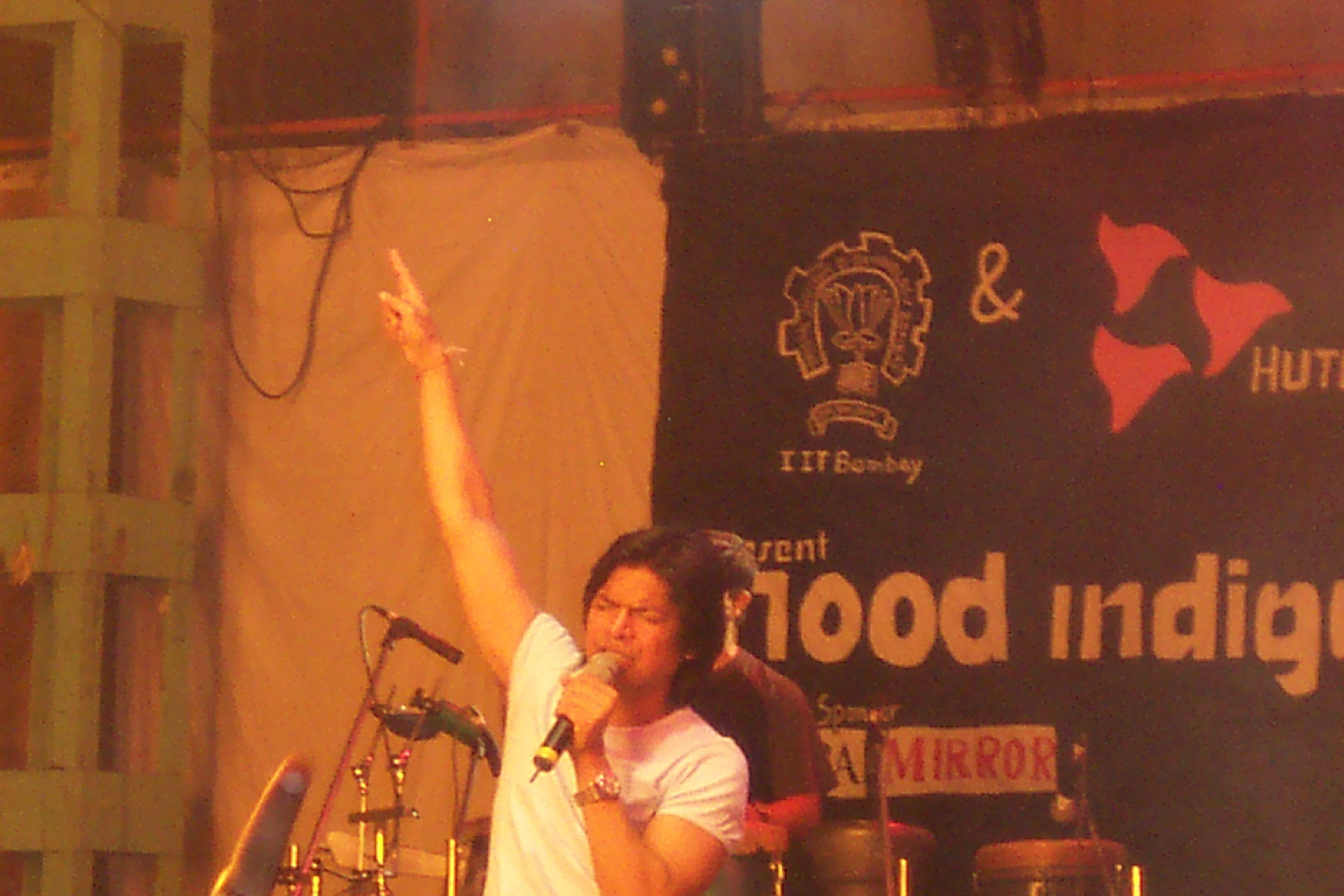 Photo taken by me of Indian singer Shaan performing live at Mood Indigo (IIT Mumbai) 2005. - Aksi great 10:50, 13 April 2006 (UTC)